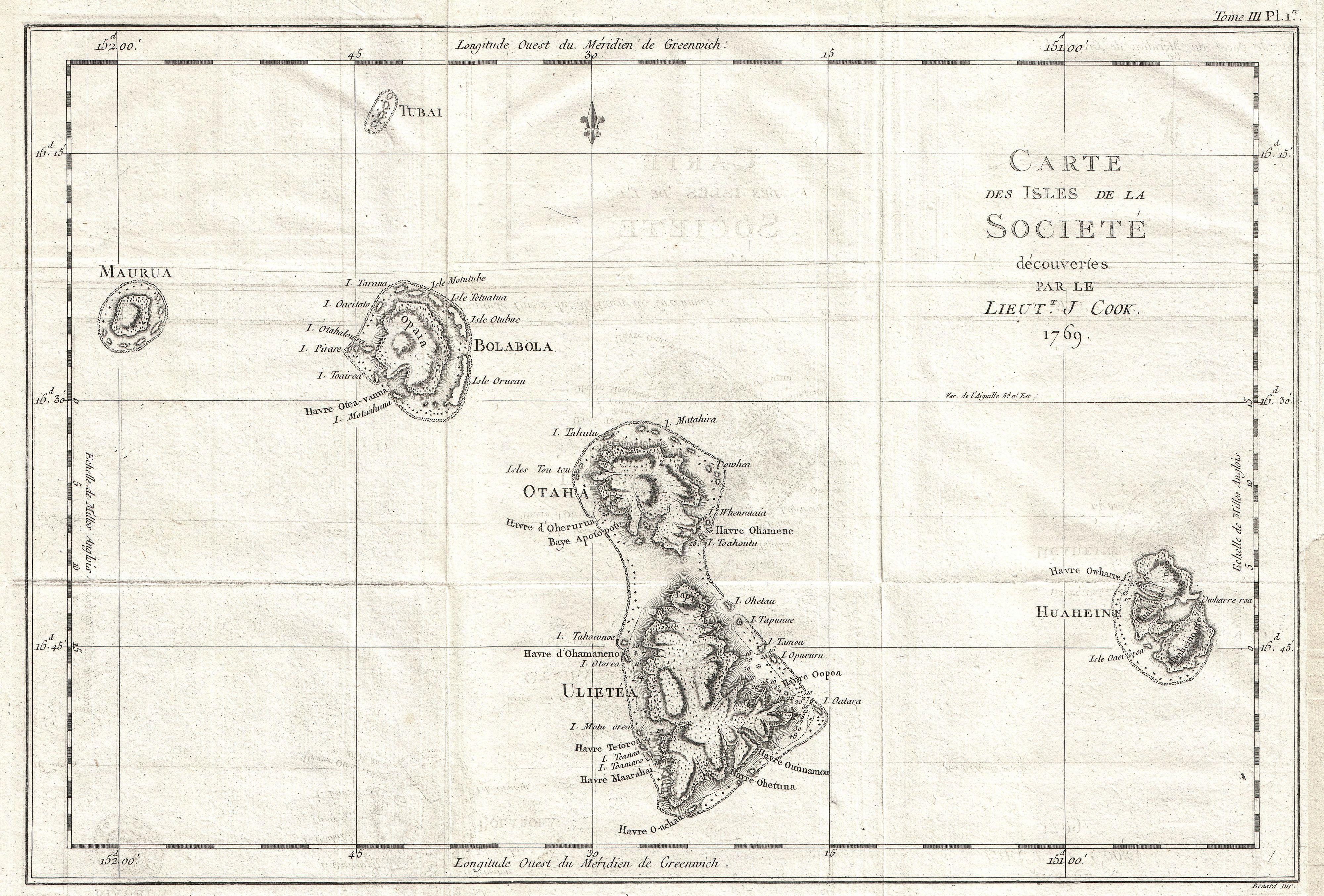 This is a fine example of the first published map of the Society Islands, composed by James Cook on his first voyage. Consists of the islands of Maurua, Tubai, Bolabola, Otaha, Ulietéa and Huaheine. This group was identified by Cook in 1769, when he wrote in his journal, "So call'd by the Natives and it was not thought advisable to give them any other names but these three together with Huaheine, Tubai, and Maurua as they lay contiguous to one another I have named Society Isles." Offers considerable detail on each of the island, attempting to show reefs, mountains, valley, topographical features and, occasionally, depth soundings. Engraved by Bernard for the 1774 French edition of John Hawkesworth’s Account of the Voyages… , in which this was contained as Plate 1 in Volume III.